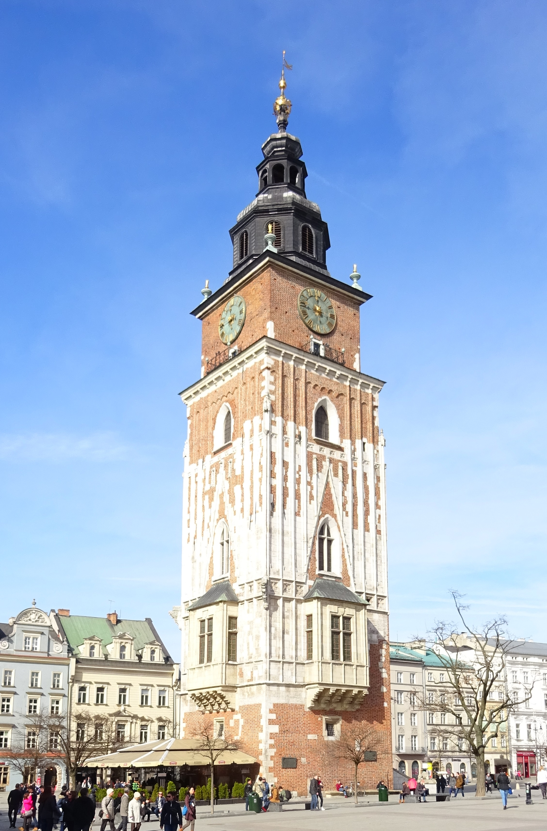 The Town Hall Tower in Kraków.